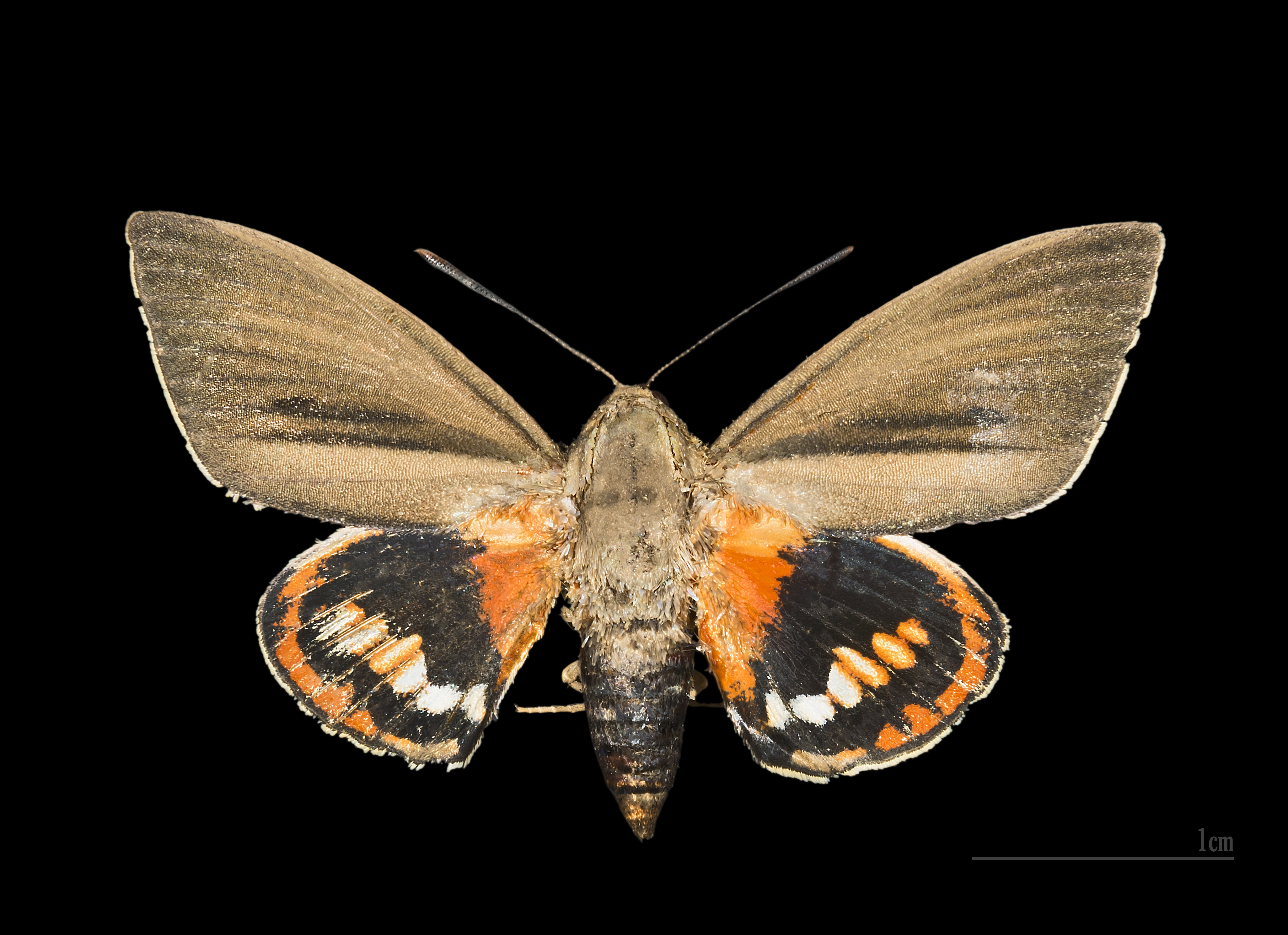 Paysandisia archon - Dorsal side